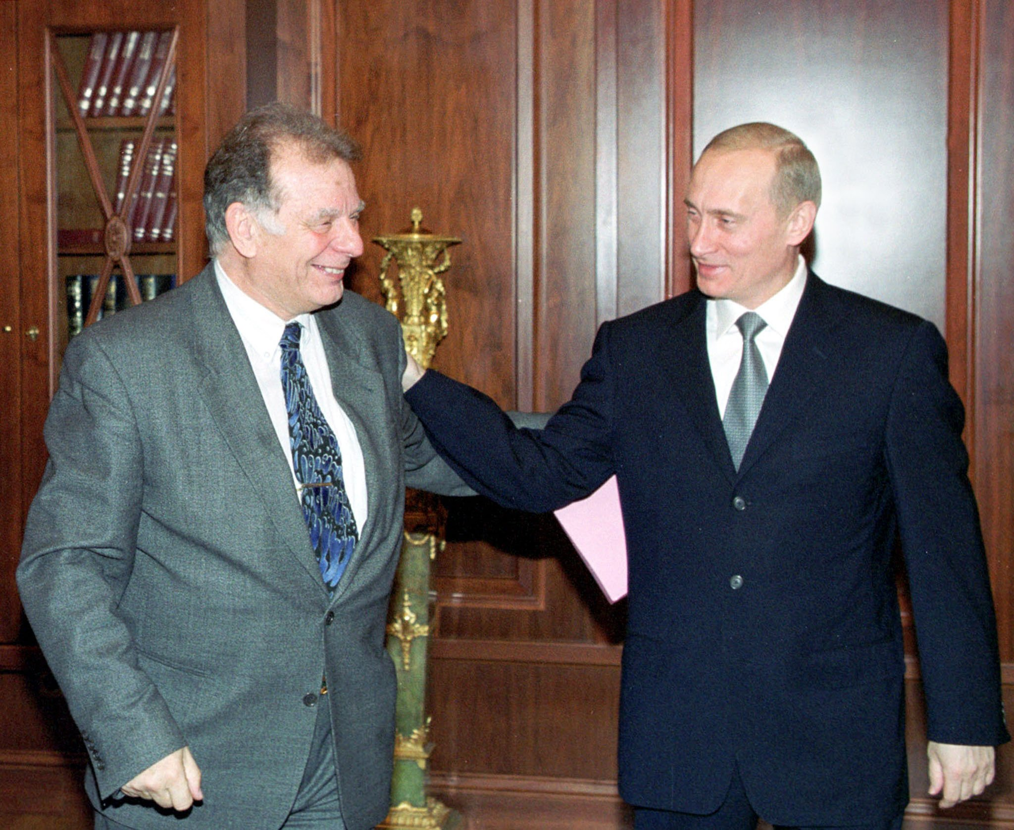 THE KREMLIN, MOSCOW. With Vice President of the Russian Academy of Sciences Zhores Alfyorov.